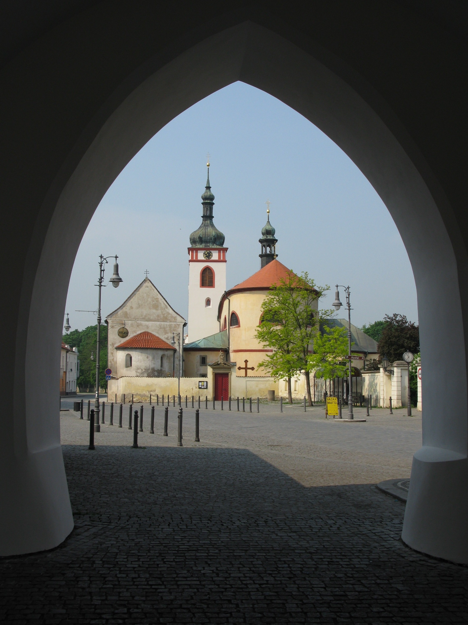 St. Wenceslas Basilica, Stara Boleslav